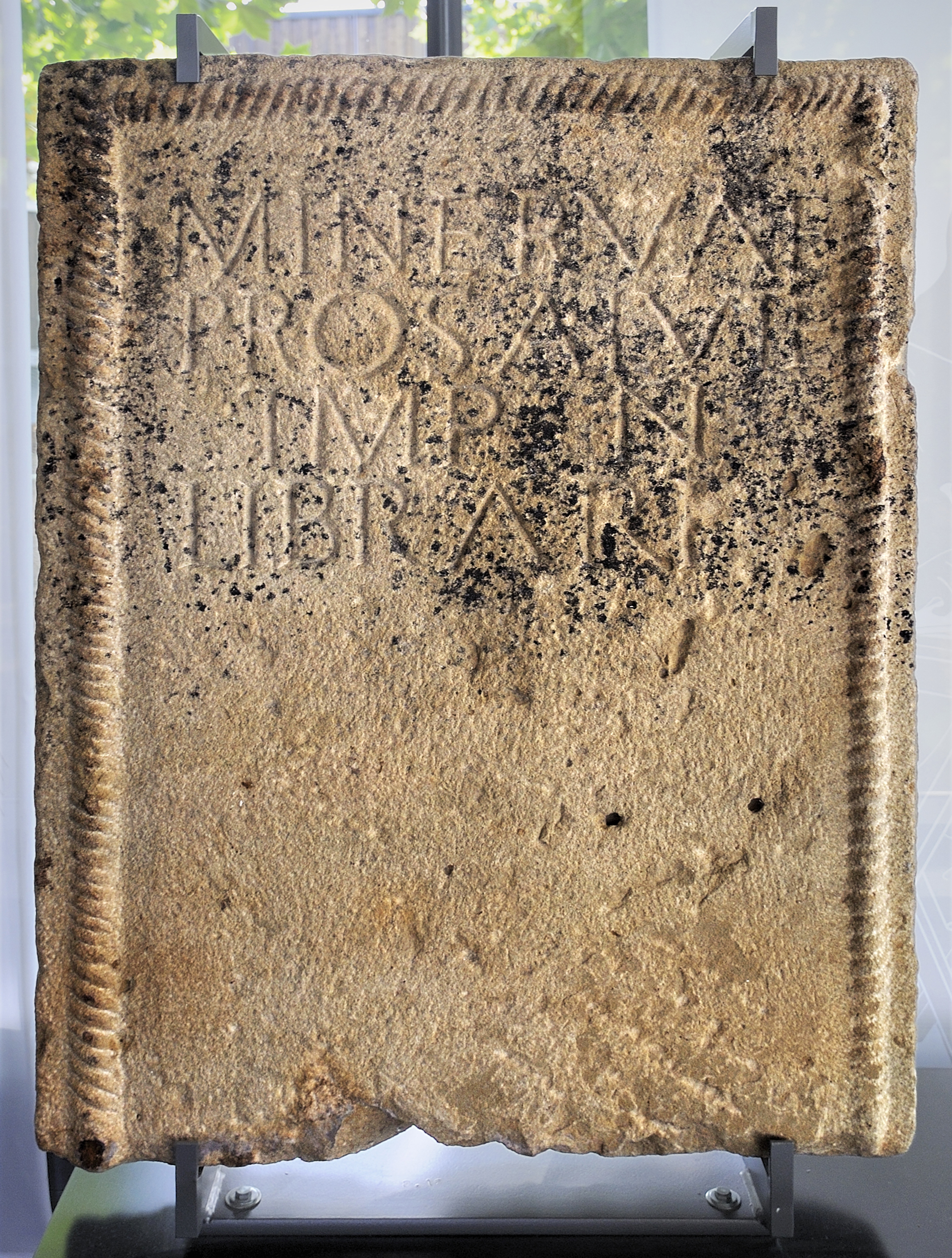 Picture taken in the Roman history museum in Osterburken.